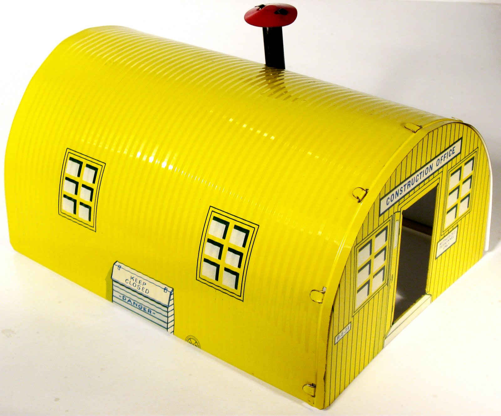 See name and metadata for info.